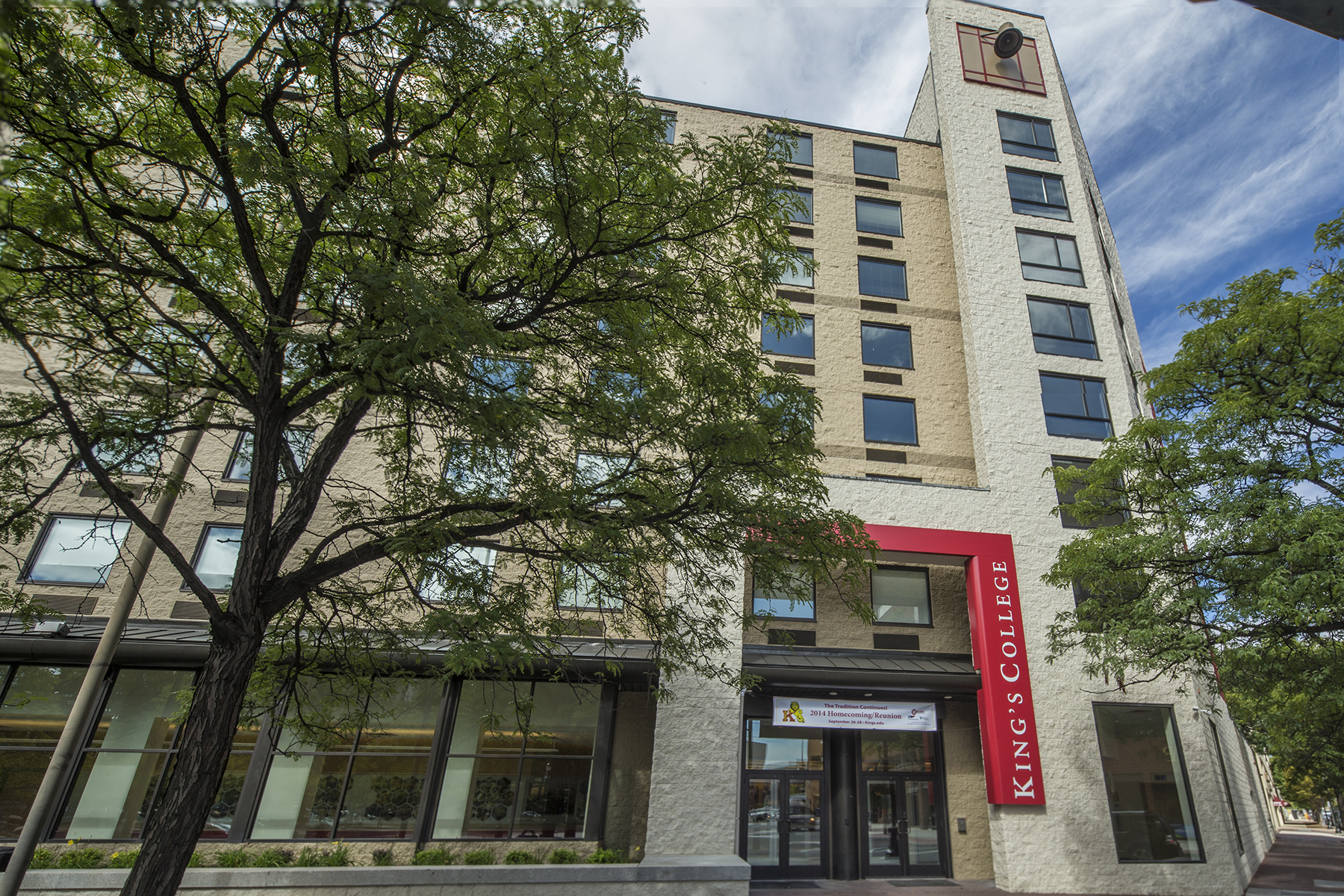 King's on the Square, King's College